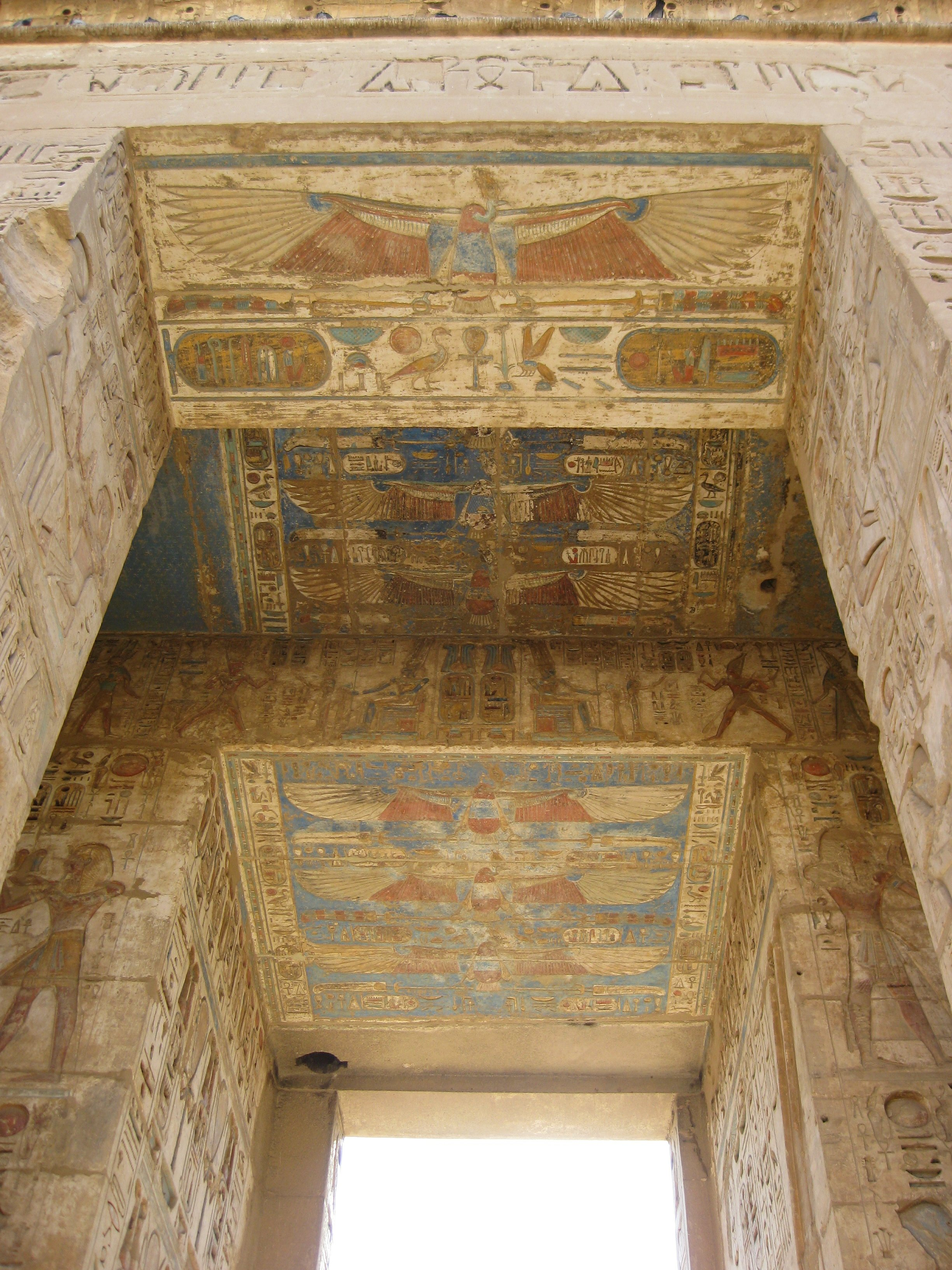 Mortuary Temple of Rameses III - Medinet Habu